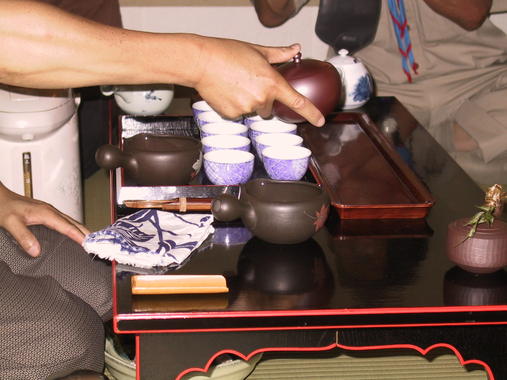 A man performs a tea ceremony